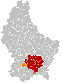 Own edit of Kanton LuxemburgLocatie.png